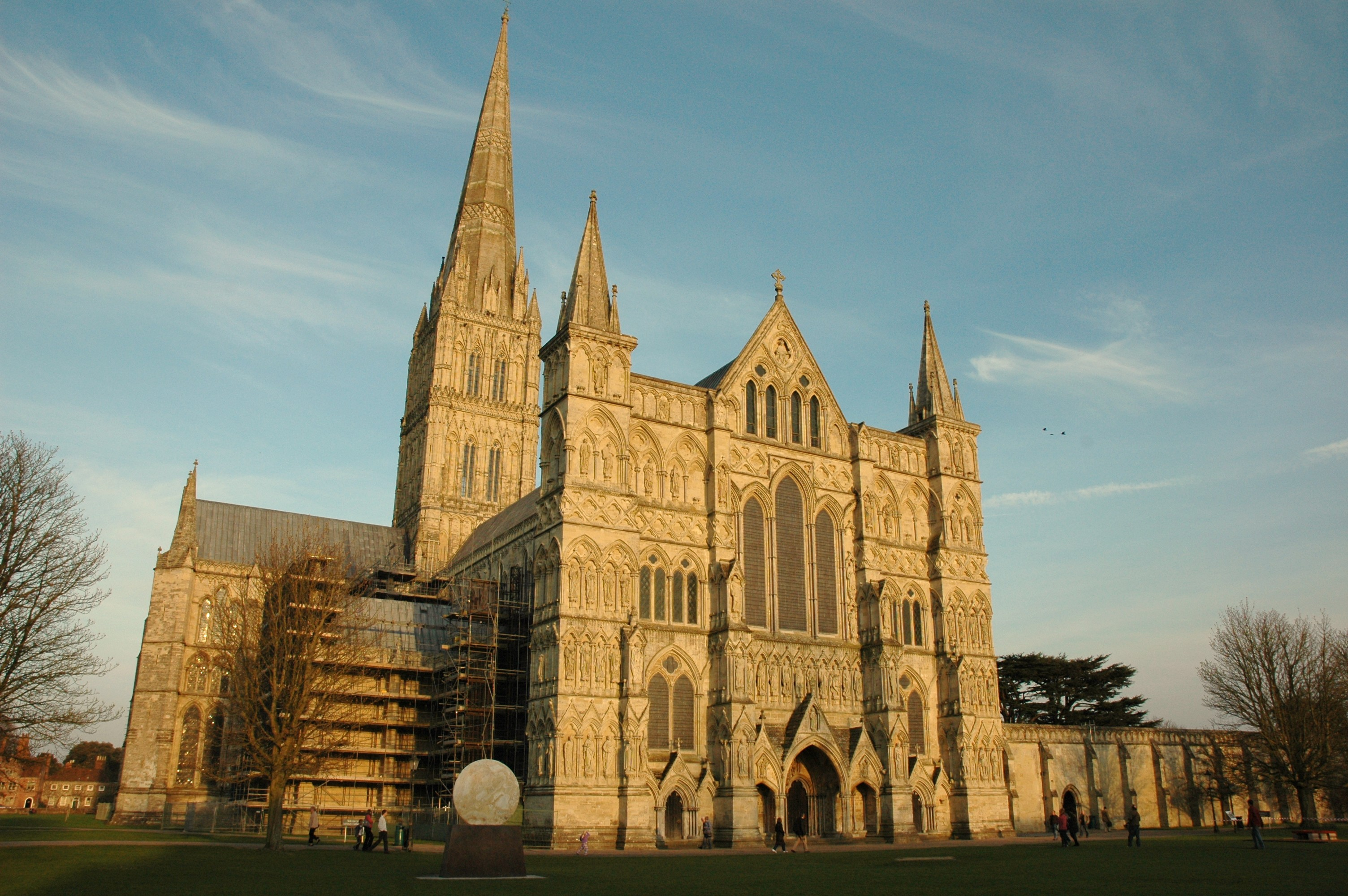 Catedral de Salisbury - tarda